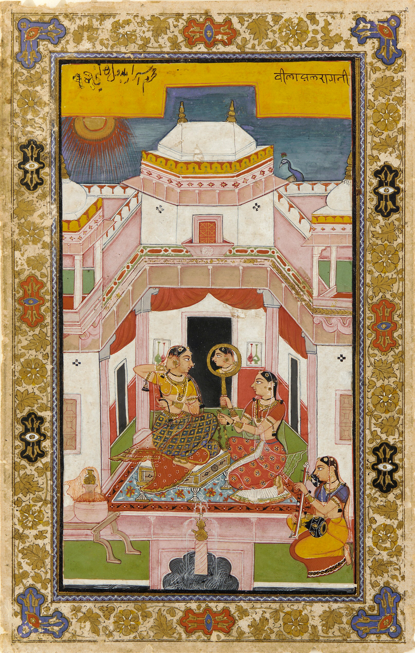 Vilaval Ragini from a ragamala (garland of musical modes) set, Bundi, ca. 1680, Freer Gallery of Art